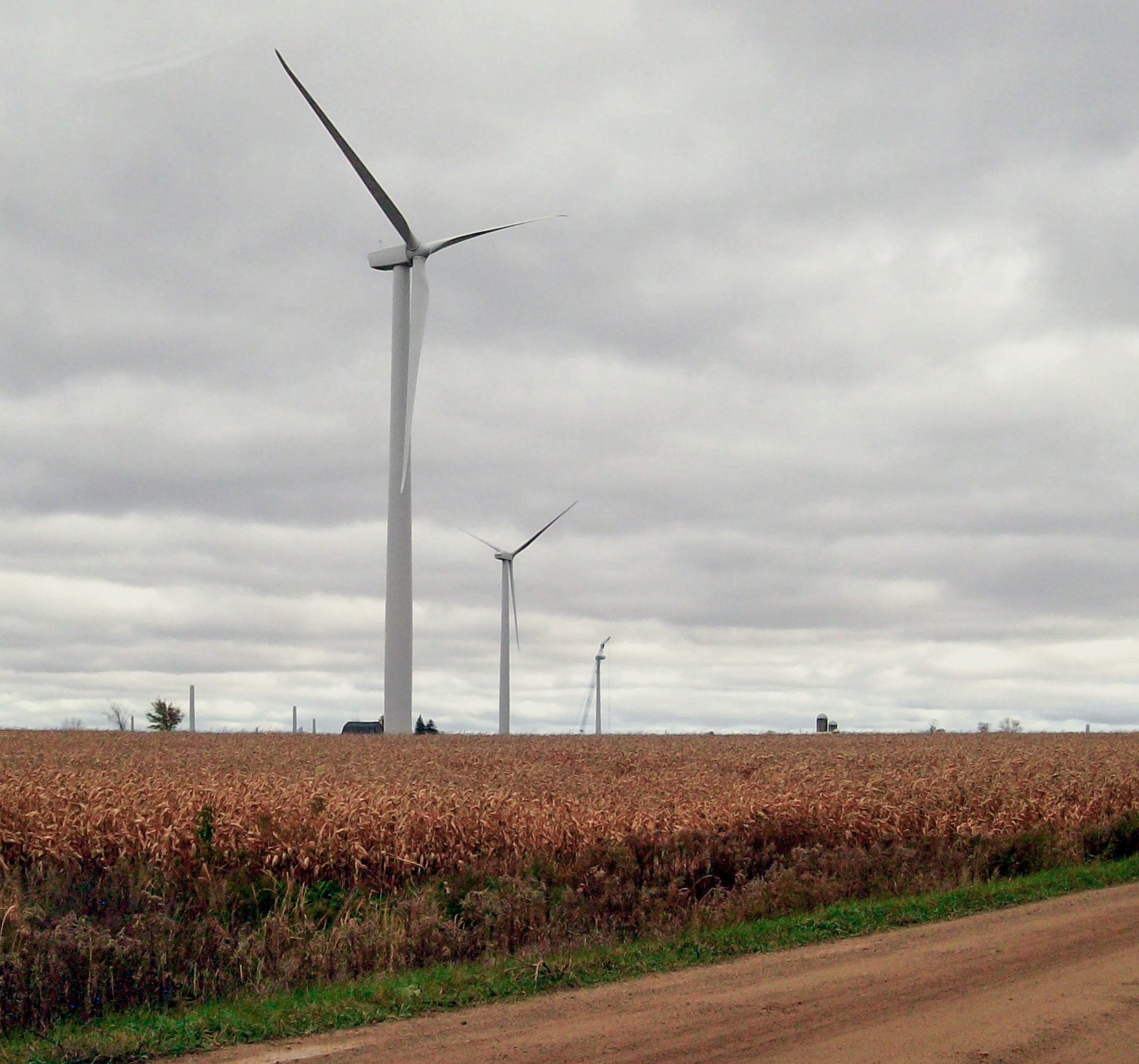 Michigan Wind 1 near Ubly is part of the former Noble Thumb Windpark (NTW), which John Deere Renewables acquired from Noble Environmental Power in October, 2008. The project consists of 46 GE Energy SLE wind turbines and has a total nameplate capacity of 69 MW.